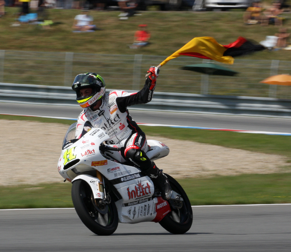 Sandro Cortese 2011 Brno